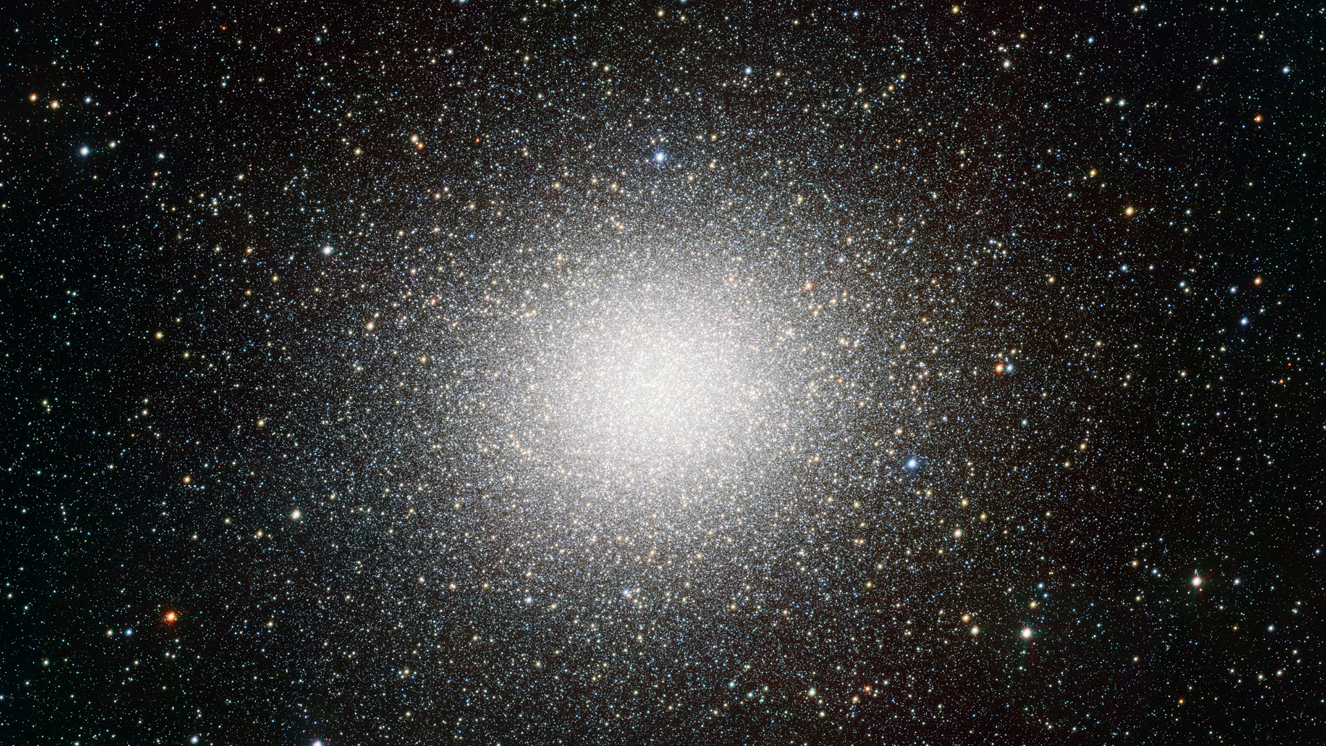 The second released VST image may be the best portrait of the globular star cluster Omega Centauri ever made. Omega Centauri, in the constellation of Centaurus (The Centaur), is the largest globular cluster in the sky, but the very wide field of view of VST and its powerful camera OmegaCAM can encompass even the faint outer regions of this spectacular object. This view includes about 300 000 stars. The data were processed using the VST-Tube system developed by A. Grado and collaborators at the INAF-Capodimonte Observatory.